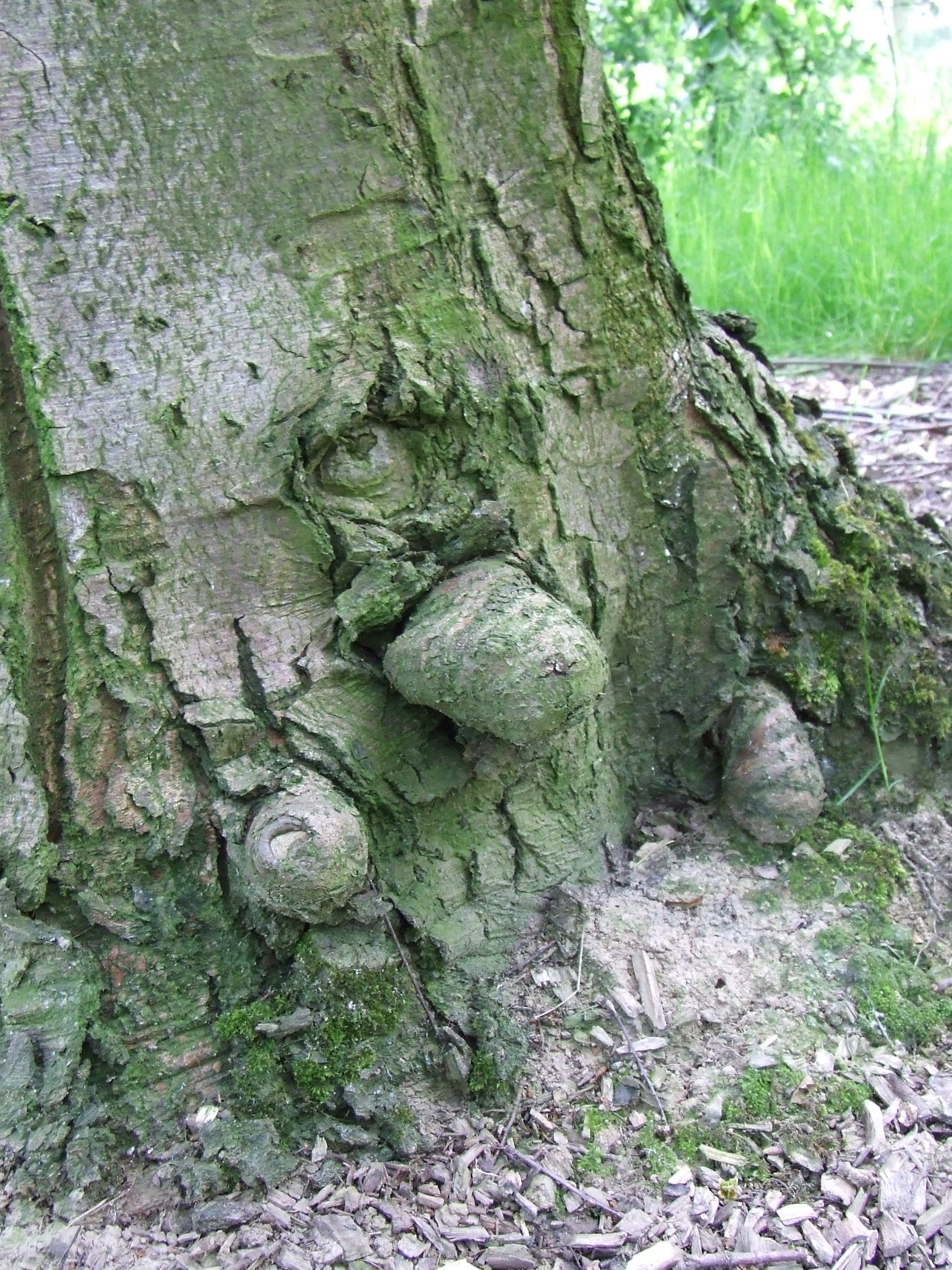 This image shows three sphaeroblasts at the base of a mature southern beech tree